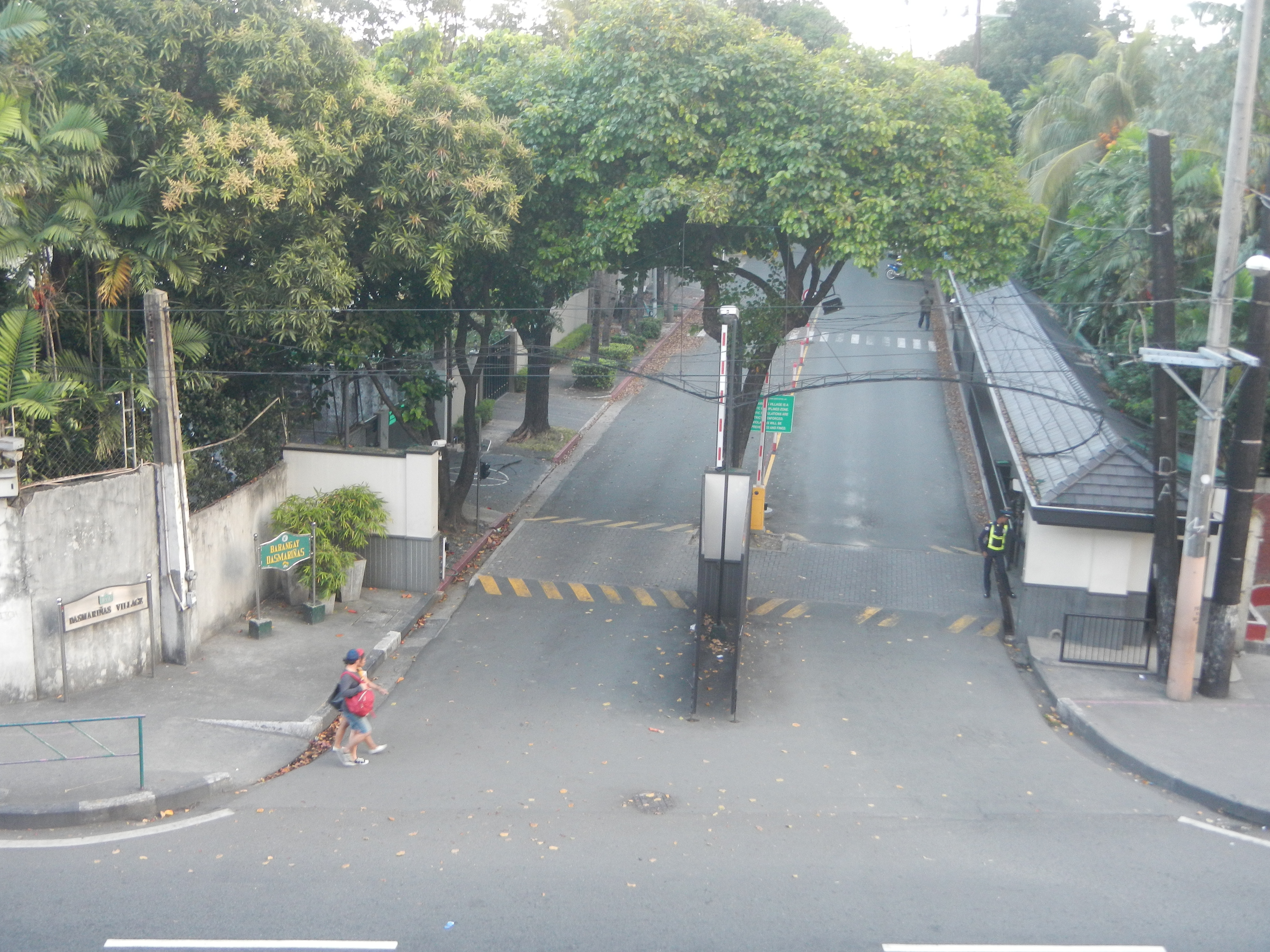 List of barangays of Metro Manila, Legislative districts of Makati, Dasmariñas Village 14°32'26"N 121°1'41"E Dasmariñas Village Makati City from Magallanes Interchange corner South Luzon Expressway corner EDSA (road) Epifanio de los Santos Avenue (EDSA, Makati City - Pasay City section) (Note: Judge Florentino Floro, the owner, to repeat, Donor Florentino Floro of all these photos hereby donate gratuitously, freely and unconditionally all these photos to and for Wikimedia Commons, exclusively, for public use of the public domain, and again without any condition whatsoever).